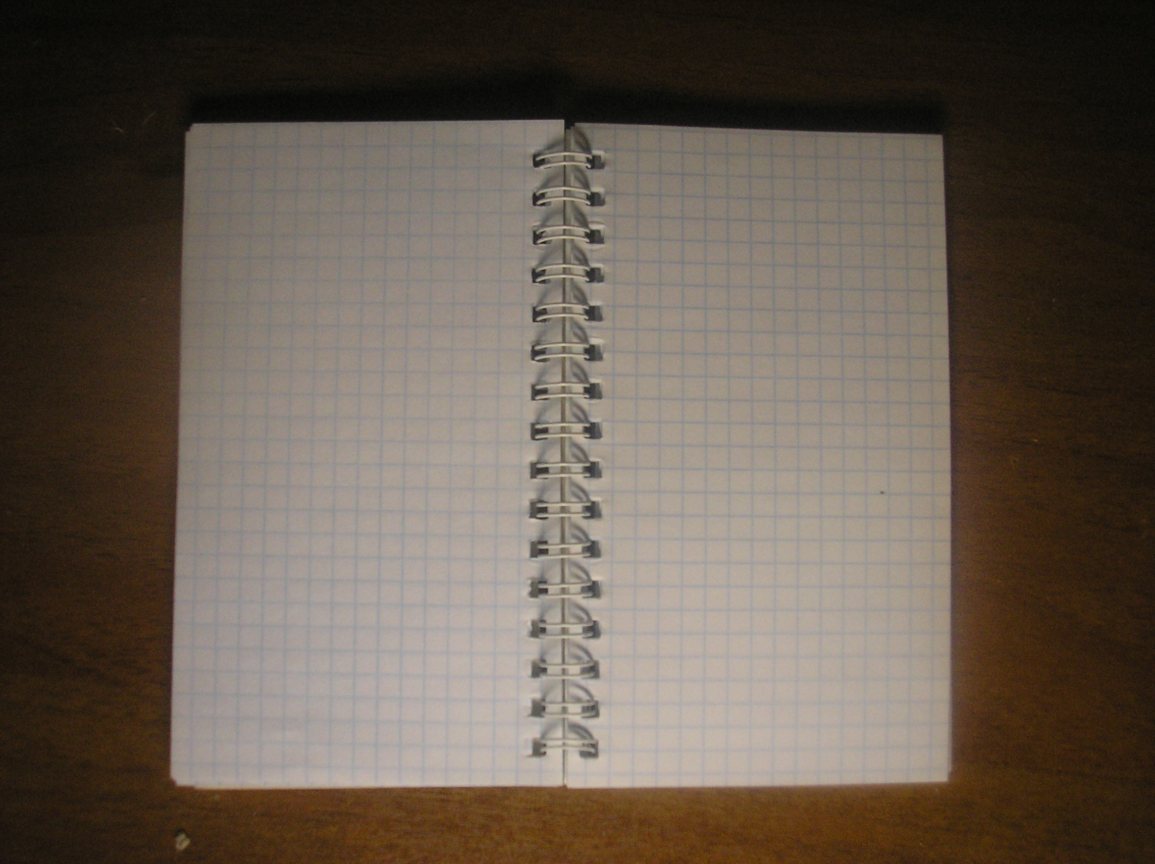 Notebook on the clear page.